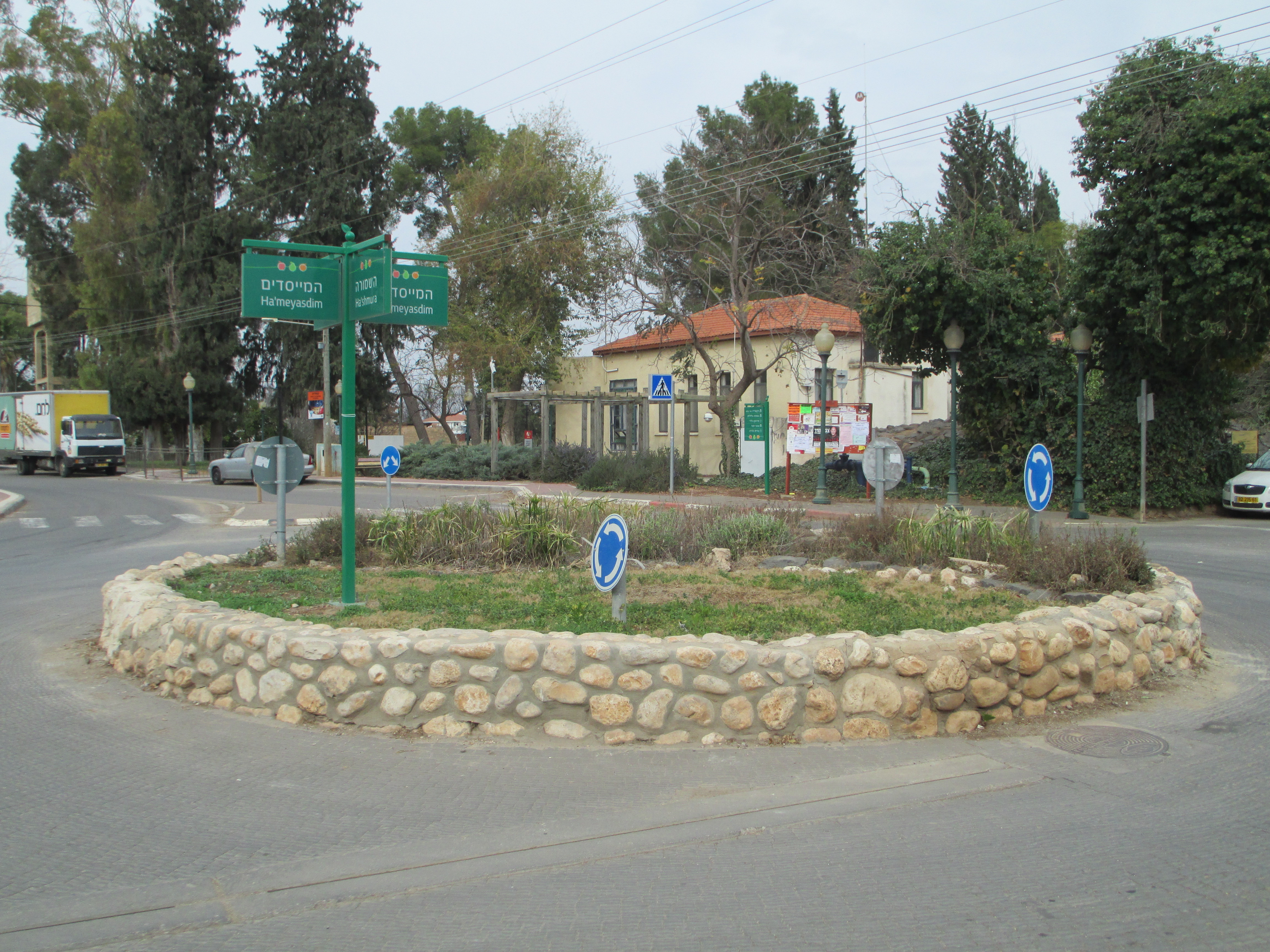 Yesud Hama'ala